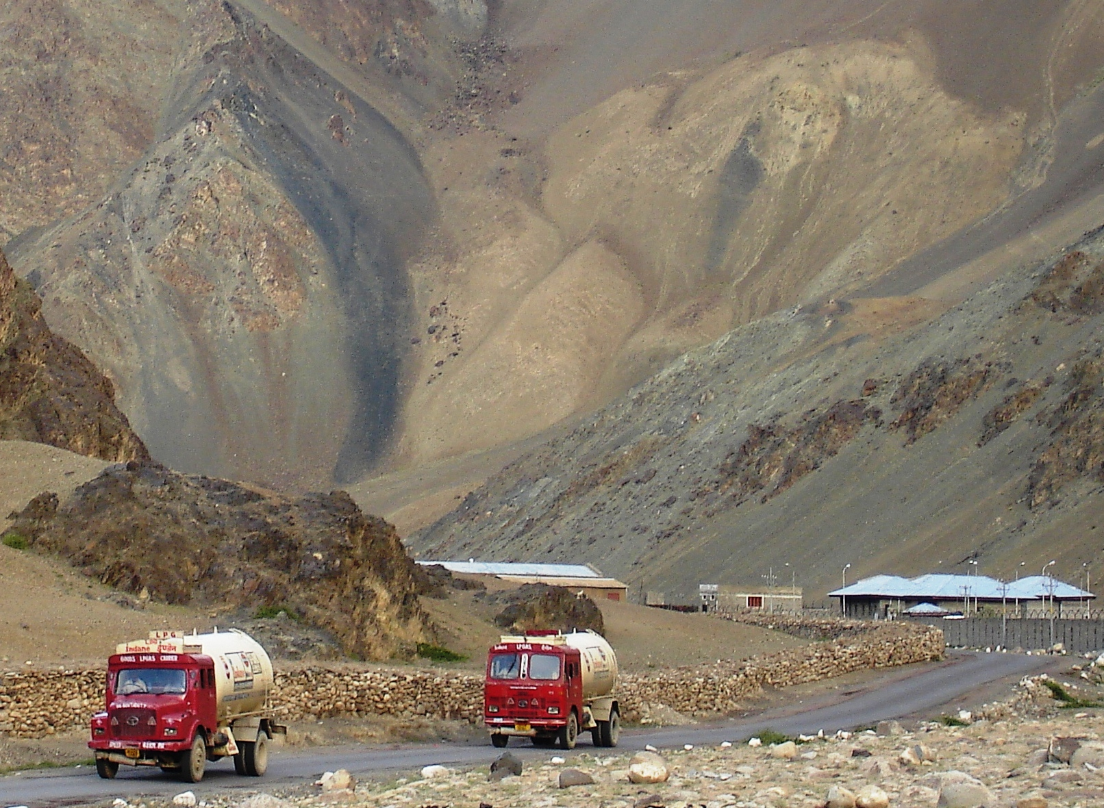 Not very long ago it took weary caravans about three weeks to move from Srinagar to Leh, which was at the cross-roads of many feeder routes of the ancient ' Silk Route'. Today one reaches Leh in two days by road from Srinagar with just over night stay in Kargil. The road now designated a national highway was constructed in the Sixties… Here you see Trucks after depositing fuel... coming back.....!